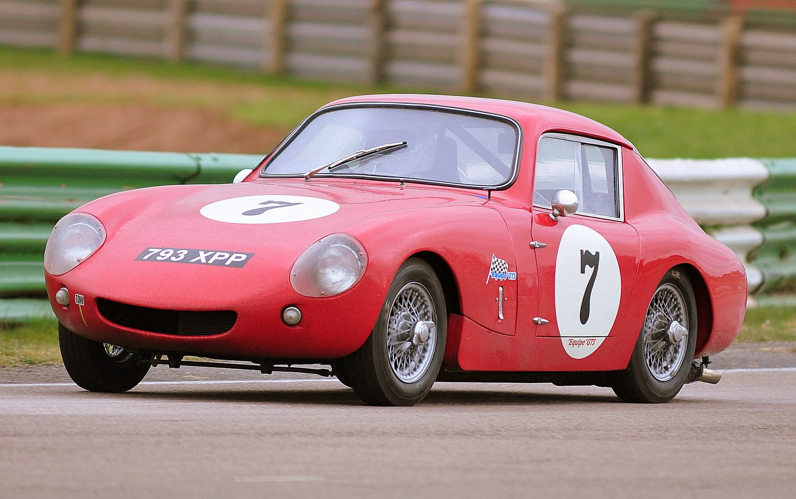 A WSM Austin-Healey Sprite special, on test at Mallory Park, March 2009.